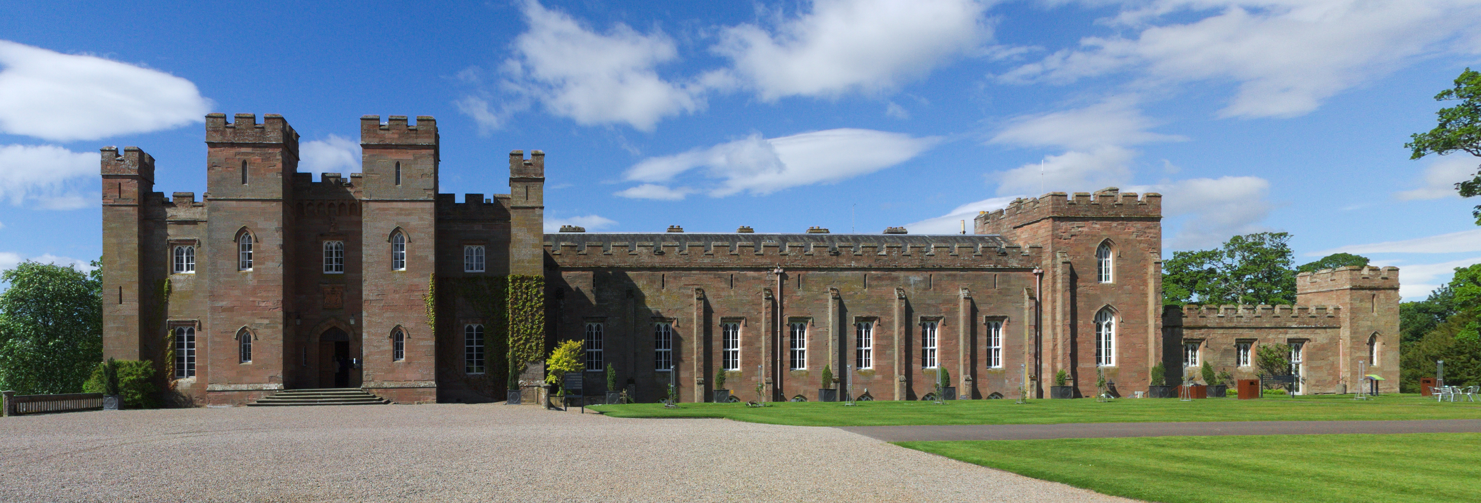 Scone Palace / Perth, Scotland - Front side